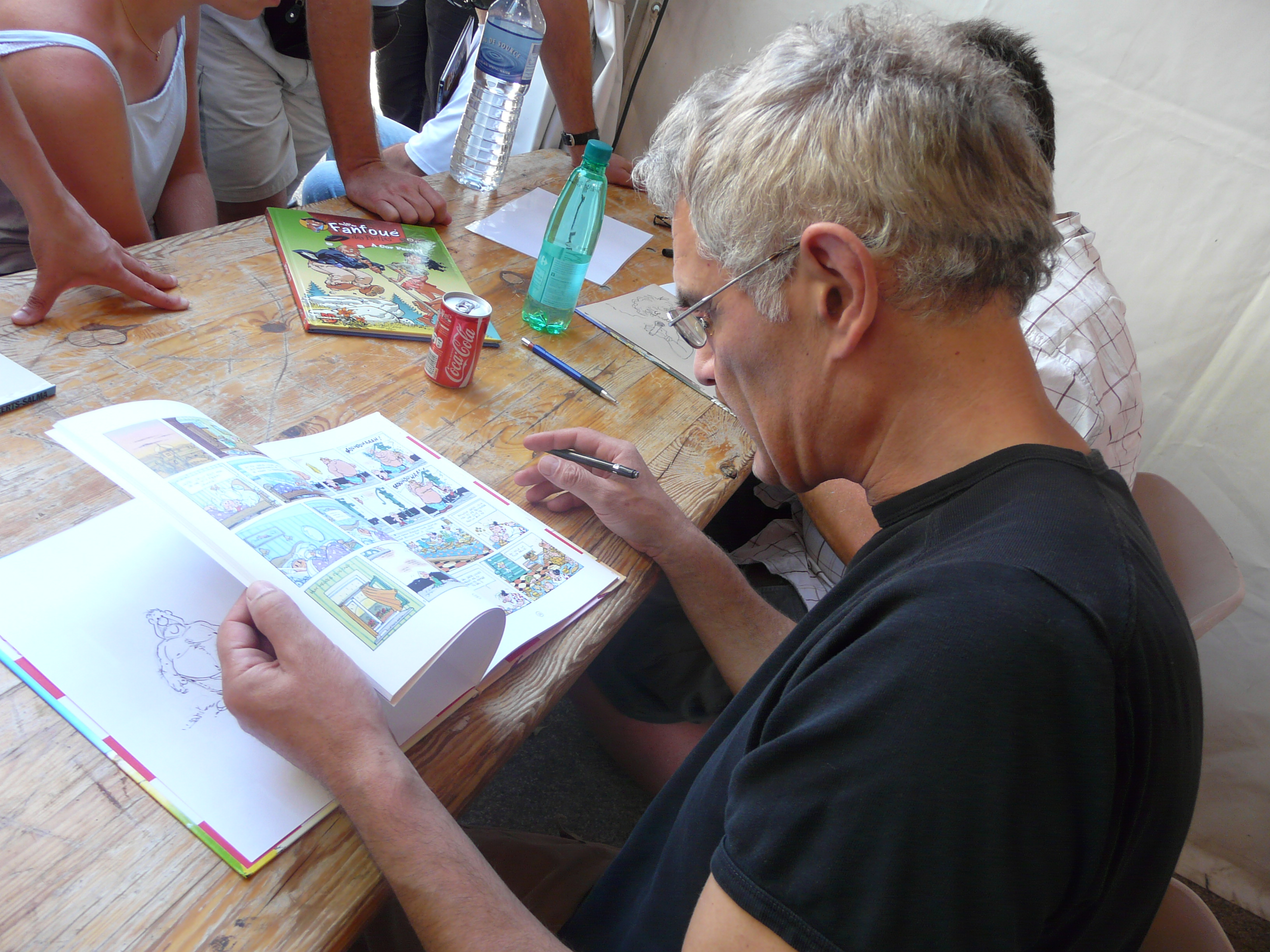 Photographs taken during the International Comic Festival of Sollies Ville, France